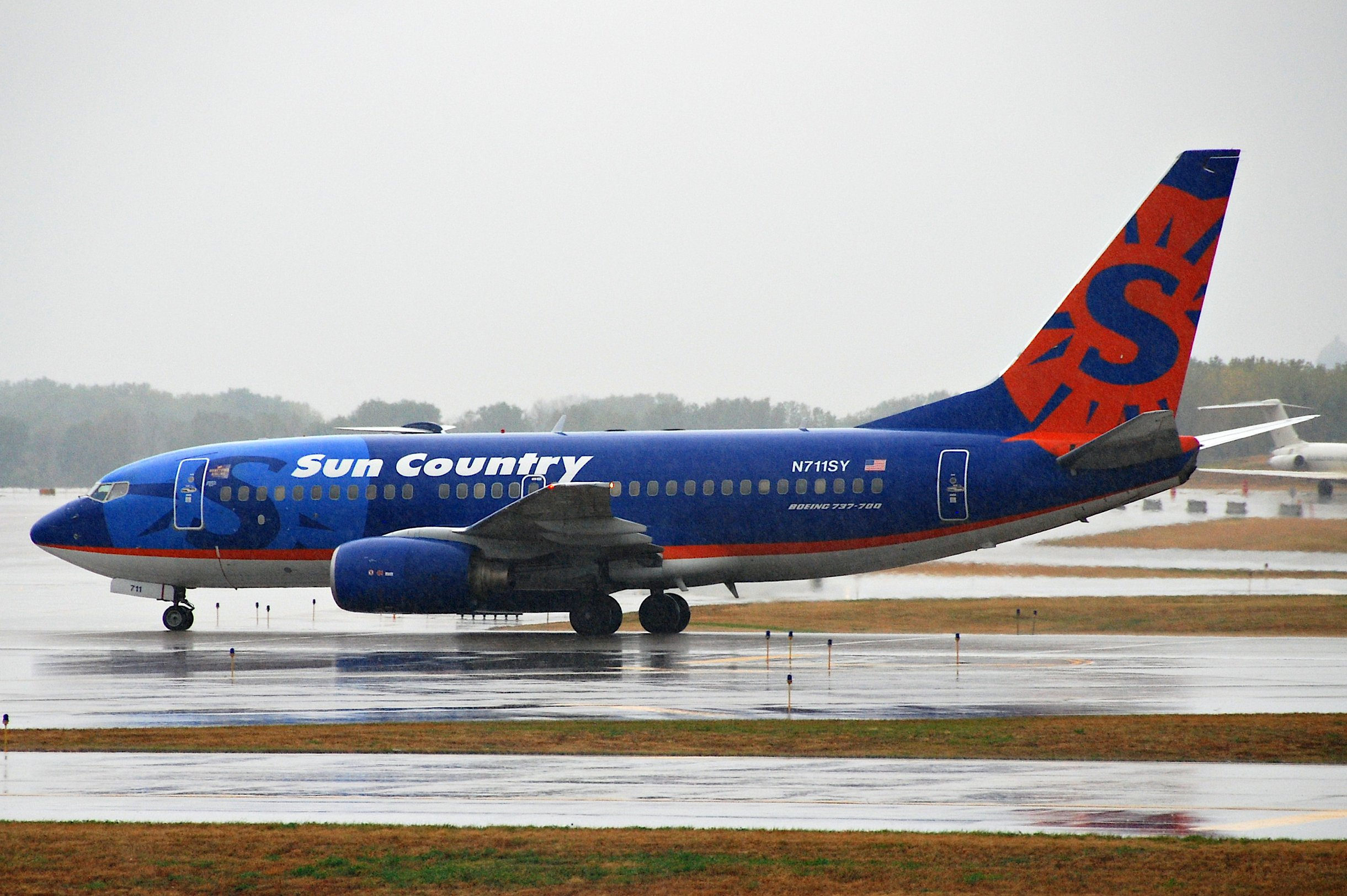 This Boeing 737-73V took its first flight on January 15, 2002... 30/01/2002 EasyJet G-EZJJ stored 01/2009 28/02/2009 Sun Country Airlines N711SY